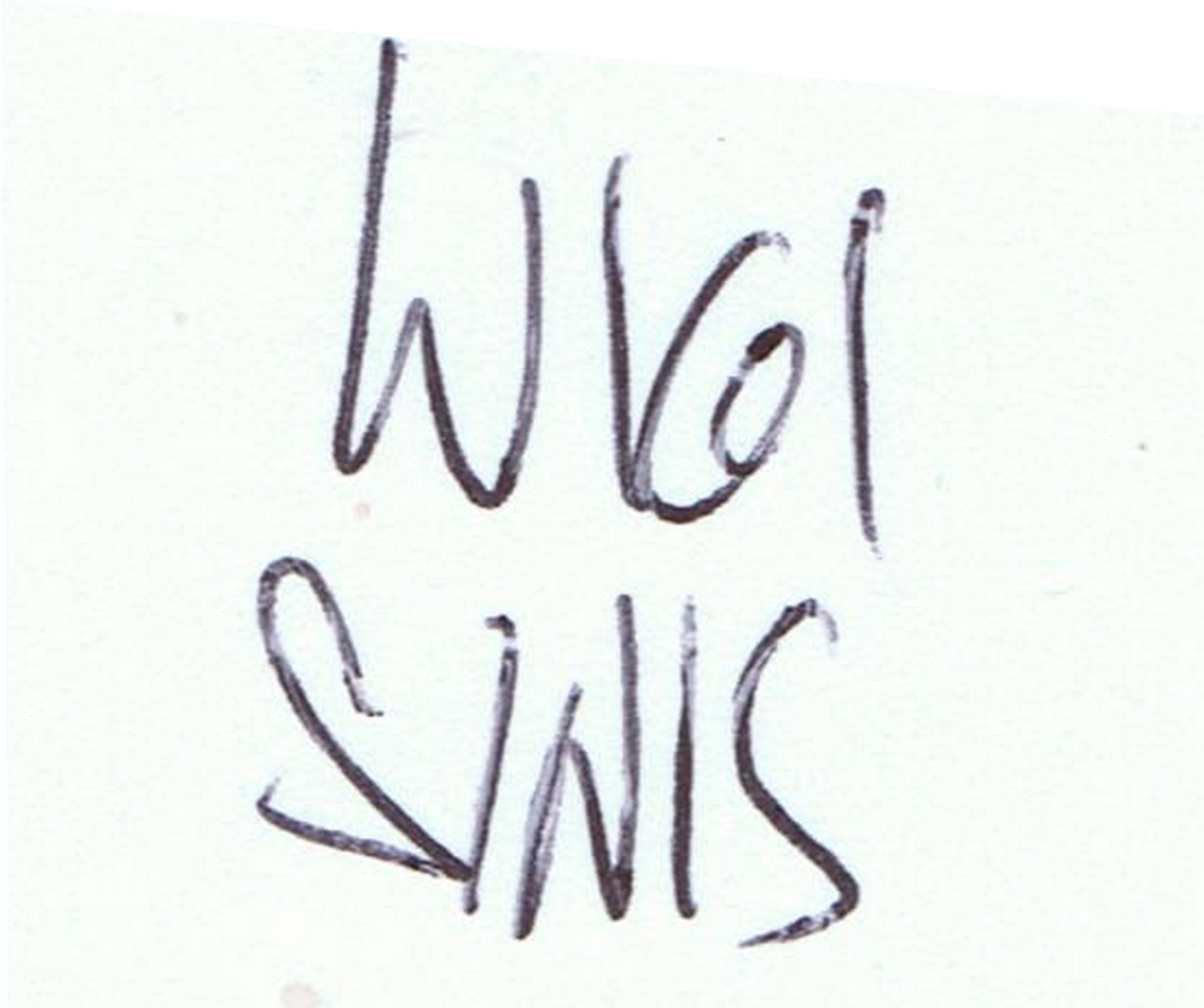 Luigi Siniscalchi signature